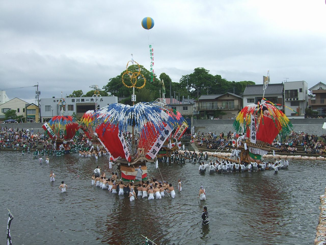 Kawawatari Jinkosai, the festival held in Tagawa City, Fukuoka, Japan.